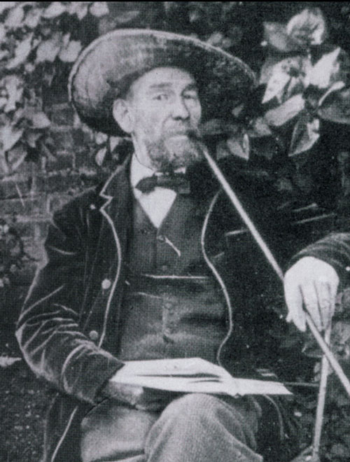 James R. Gregory, 19th century British mineral seller and collector